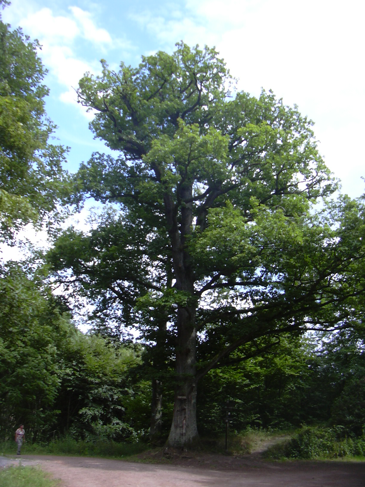 Forests near Jakobsbergerhof: Angel's Oak, Rhine Valley/Germany